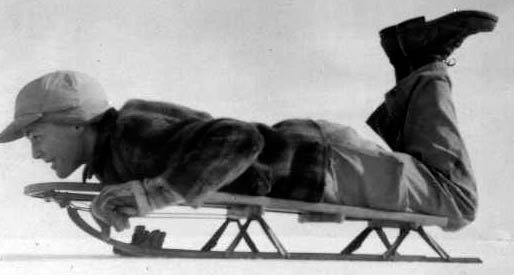 Boy on snow sled